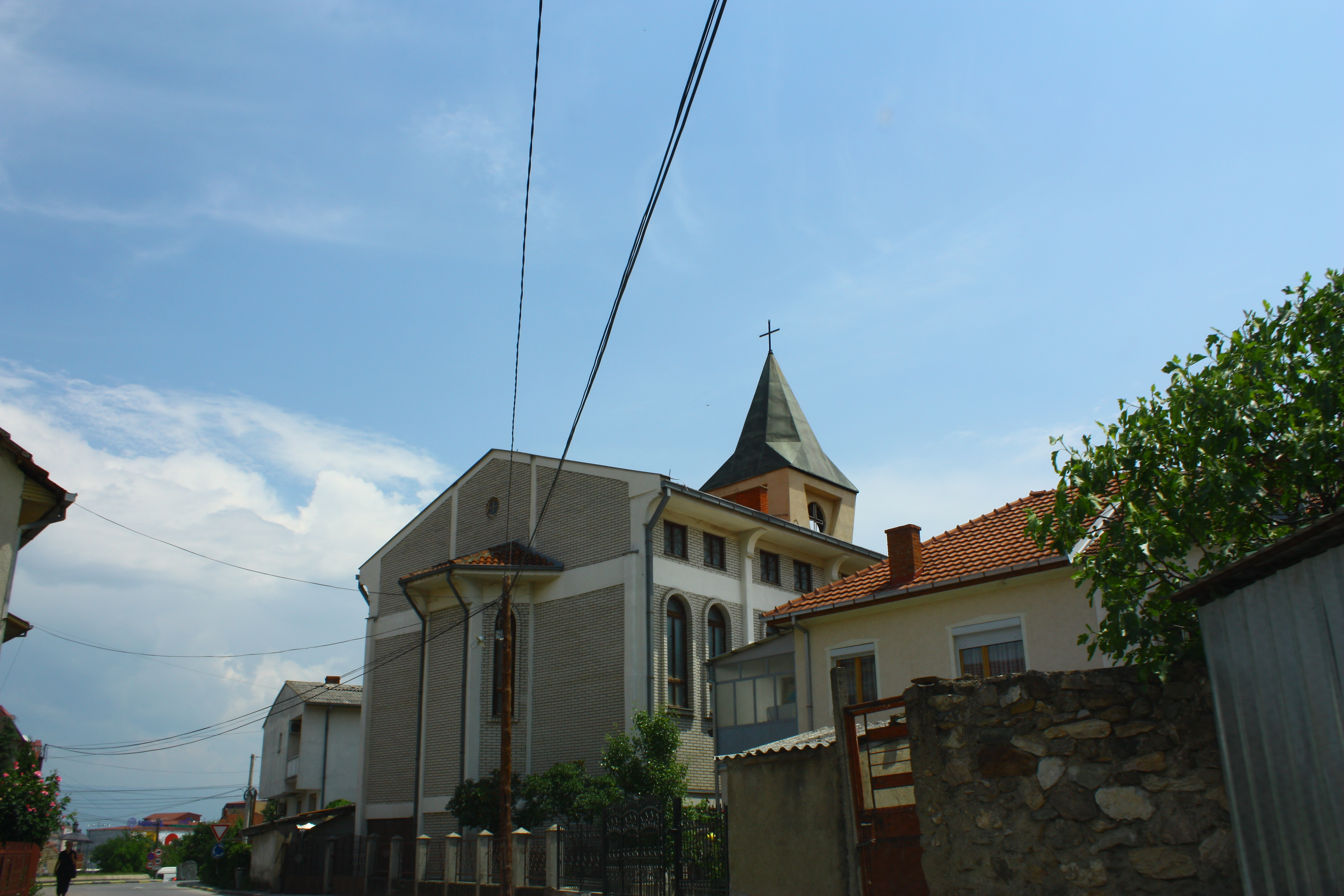 Evangelical-Methodist Church in Strumica, Macedonia